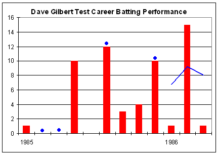 Test batting chart of Dave Gilbert. Red columns are the runs in the innings. Blue dots indicate not outs. Blue line is average in the last ten innings. Thanks to Raven4x4x for providing the template.